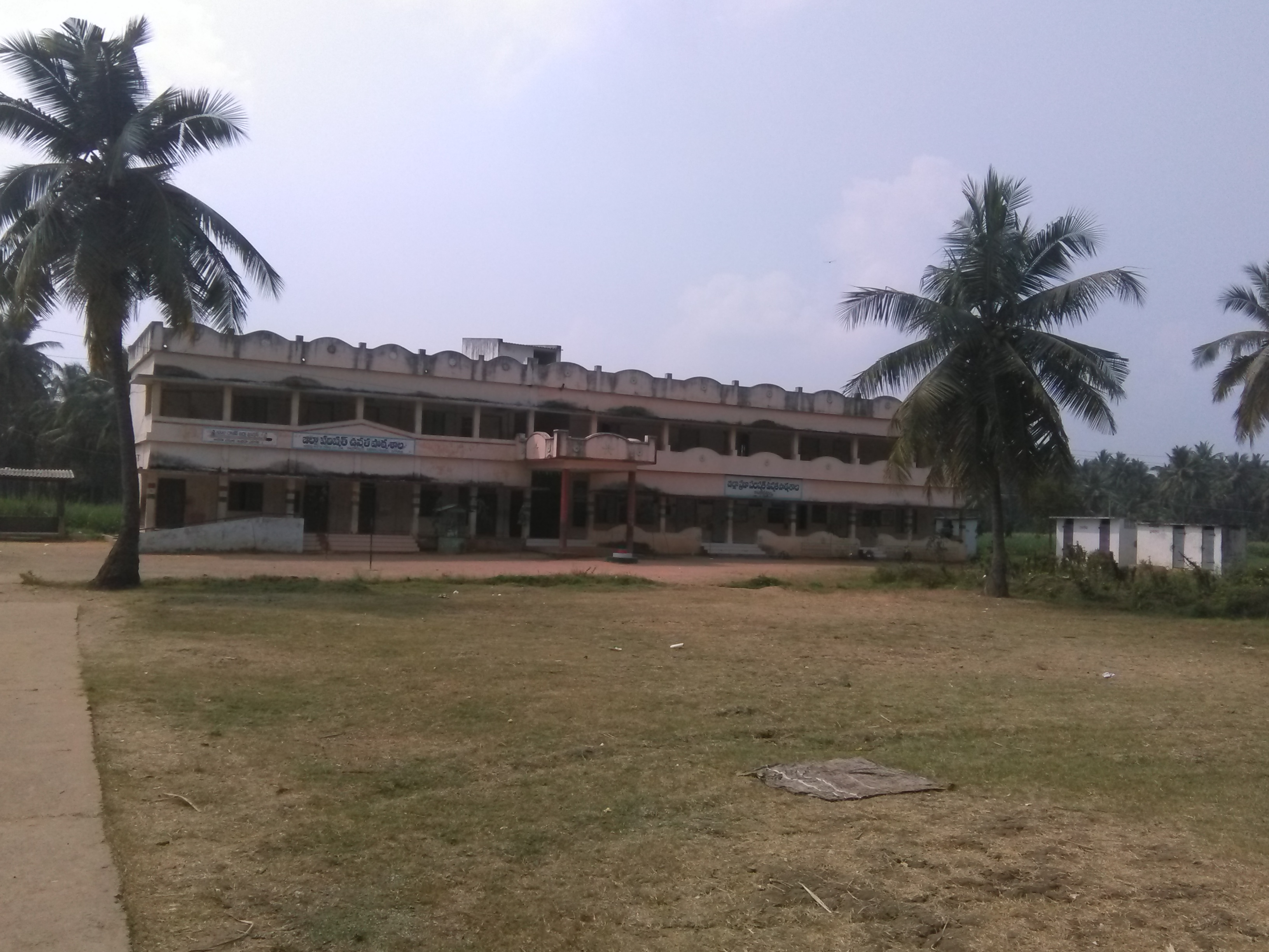 A.P Village of Kata Koteswaram (3)